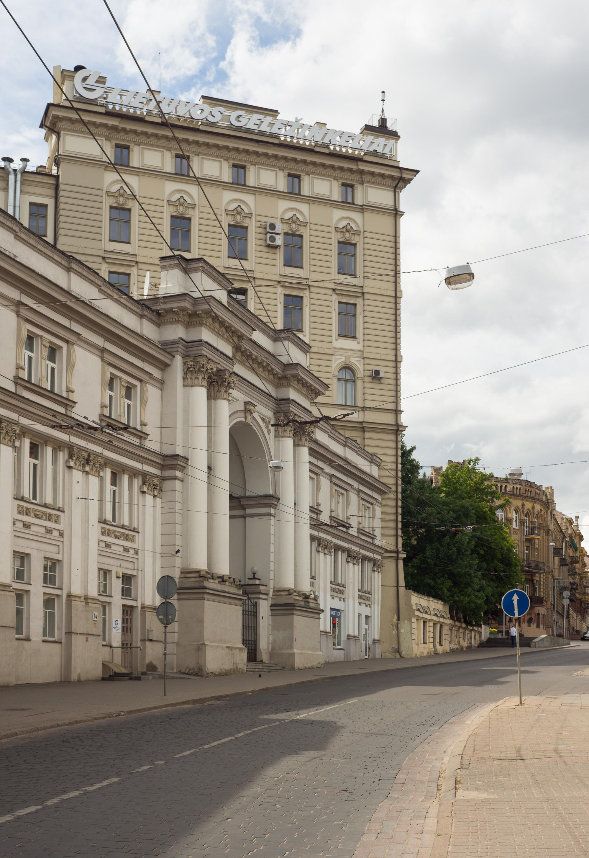 Lithuanian Railways administrative building in Vilnius, Lithuania.